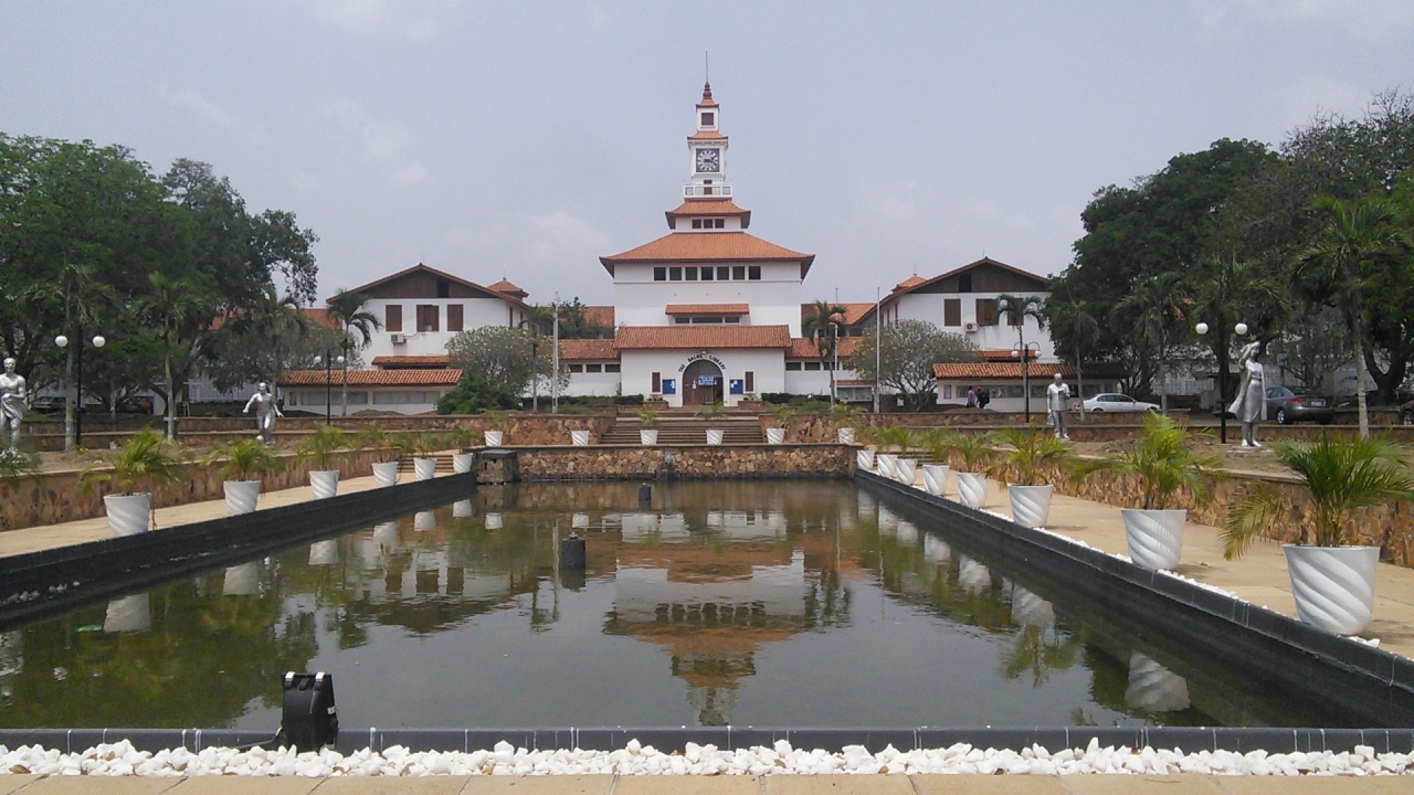 Front view of The Balme Library